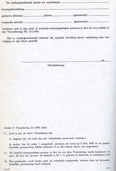 Declaration of not being jewish in occupied Netherlands